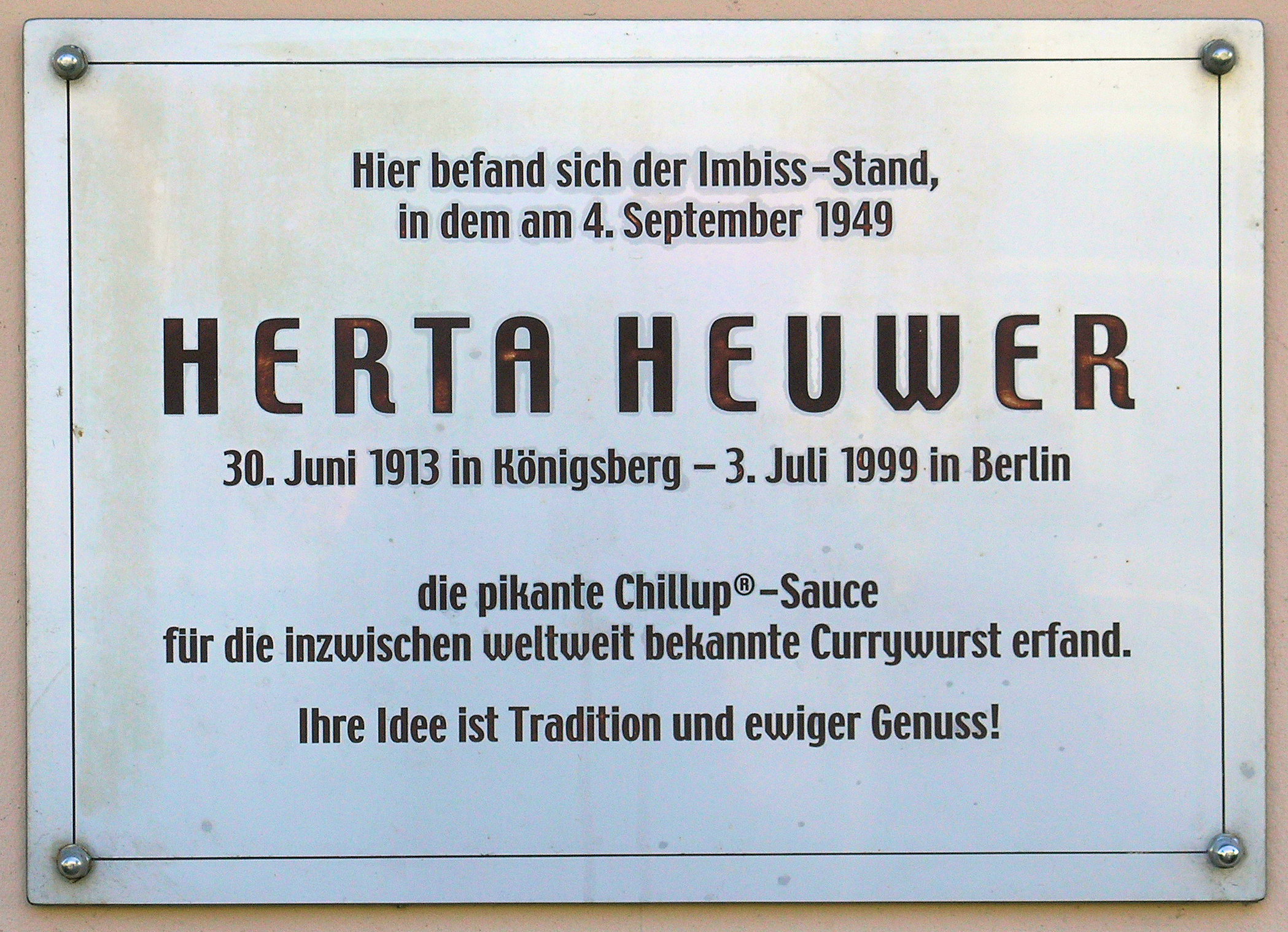 Memorial plaque, Herta Heuwer, Kantstraße 101, Berlin-Charlottenburg, Germany Koordinate:52°30′22.4″N 13°18′10″E / 52.506222°N 13.30278°E